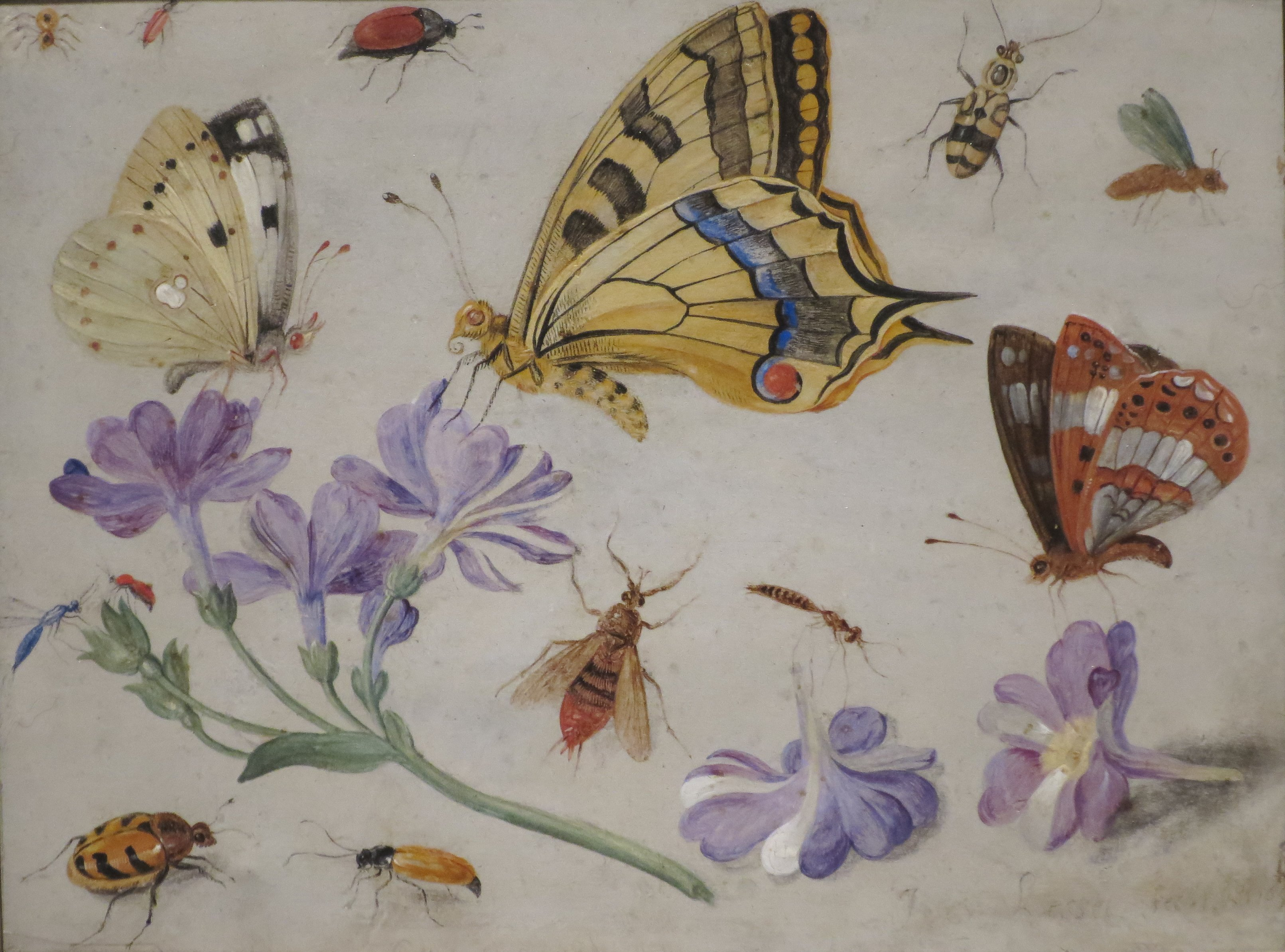 Butterflies, Other Insects, and Flowers by Jan van Kessel, 1659, oil on copper, High Museum of Art